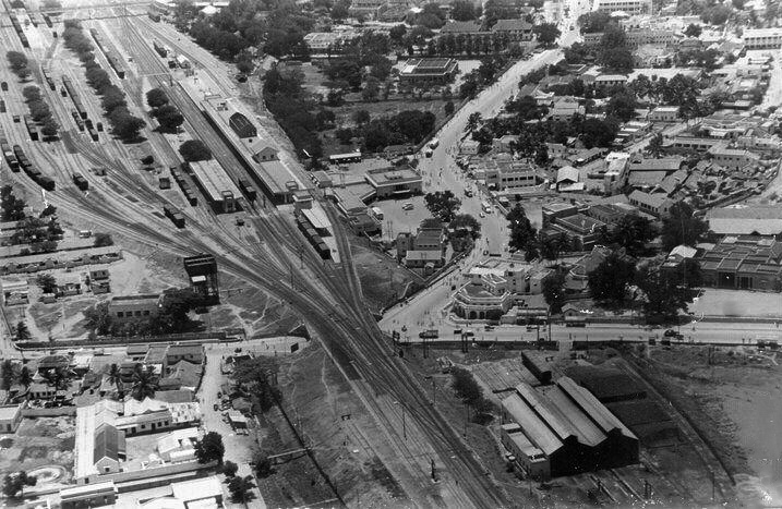 Coimbatore Railway station / Junction around late 30's to mid-40's. Many of these big buildings still exists to this day. Move cursor over image to check the boxes.